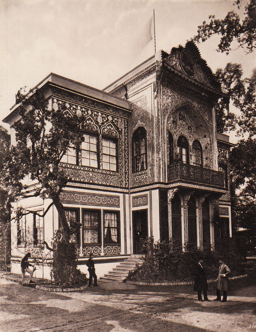 Persian Building, Expo 1873